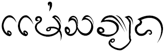 Lanna script – Mae Sariang is a small town and district (Amphoe) alongside the Yuam River in Mae Hong Son Province, northern Thailand, along the Myanmar border.